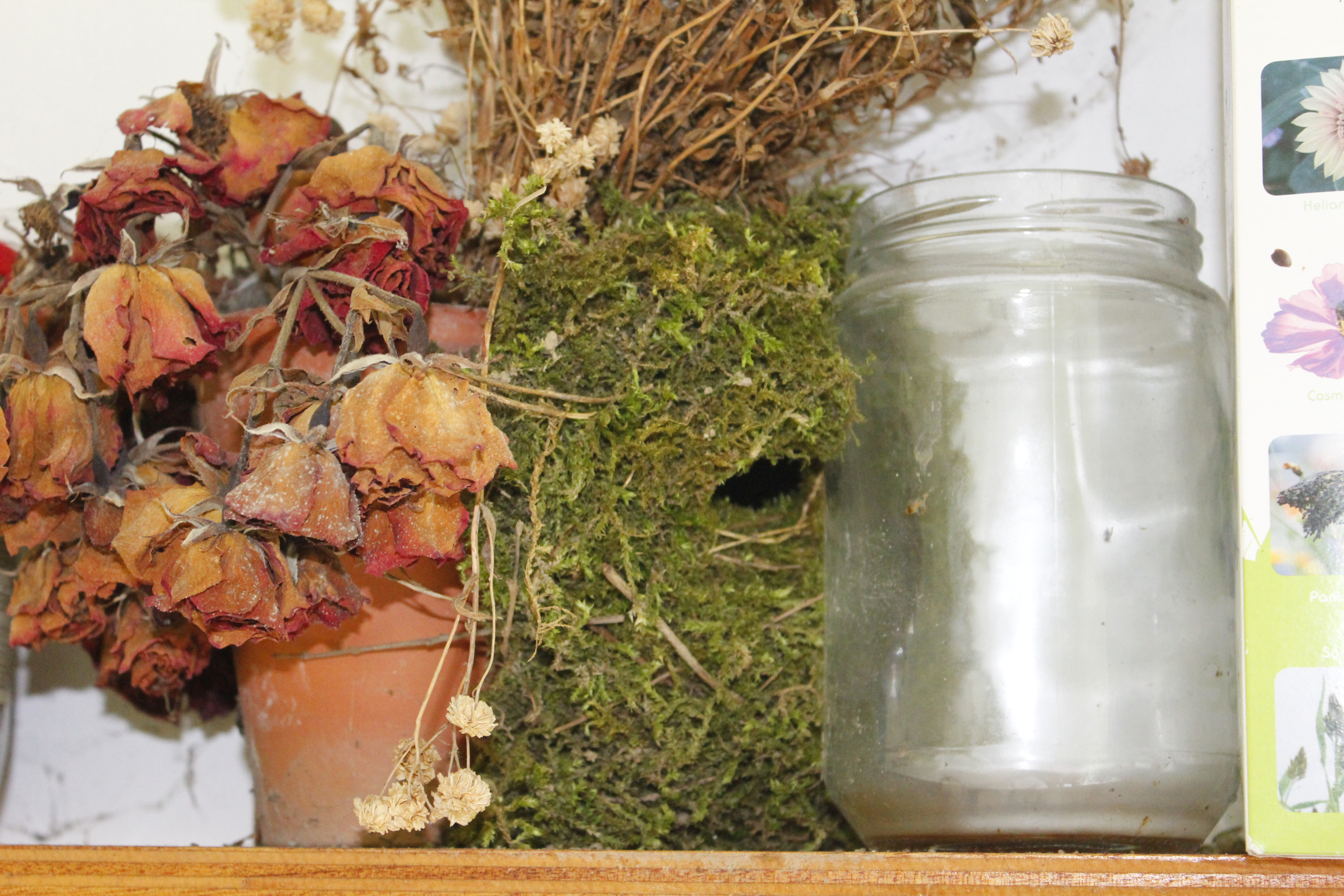 Nest of a Wren, buil in 3 days.